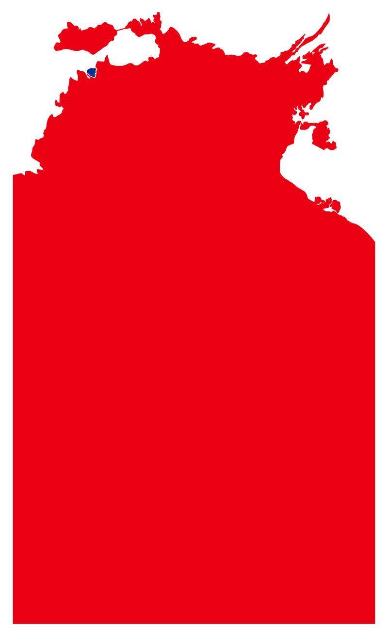 Solomon: (Liberal) Lingiari (Labor)